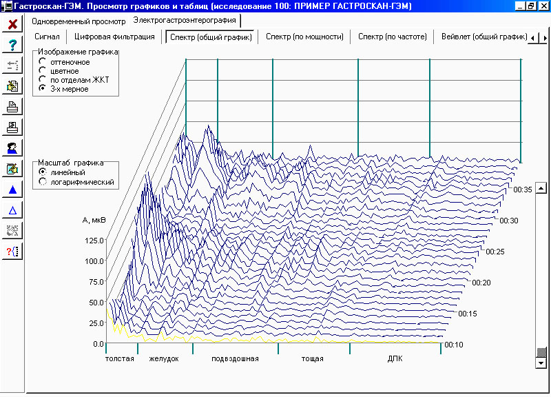 Example of 3D gastroenterogramm of man